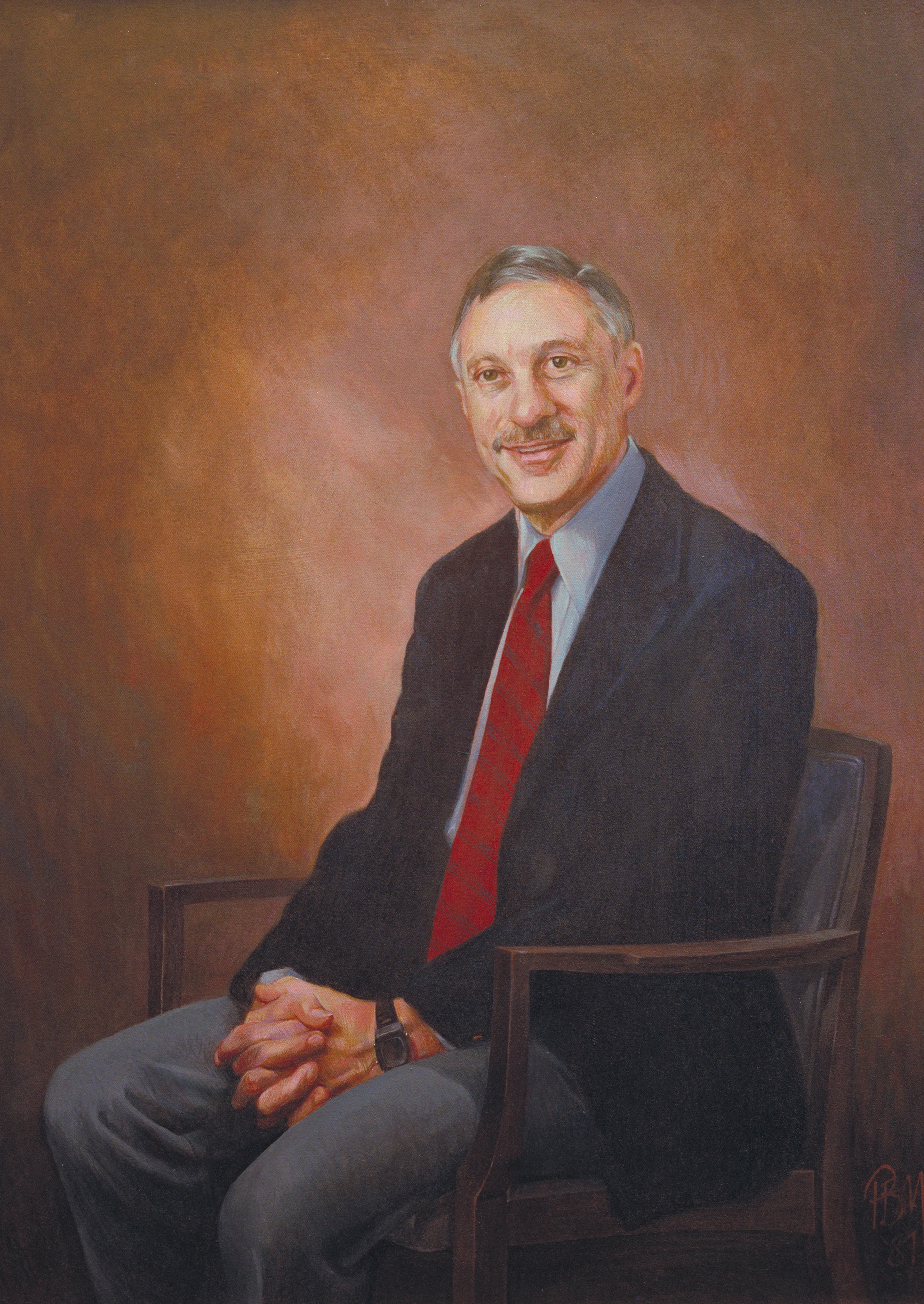 Oil Portrait of Ames Fellow James Pollack